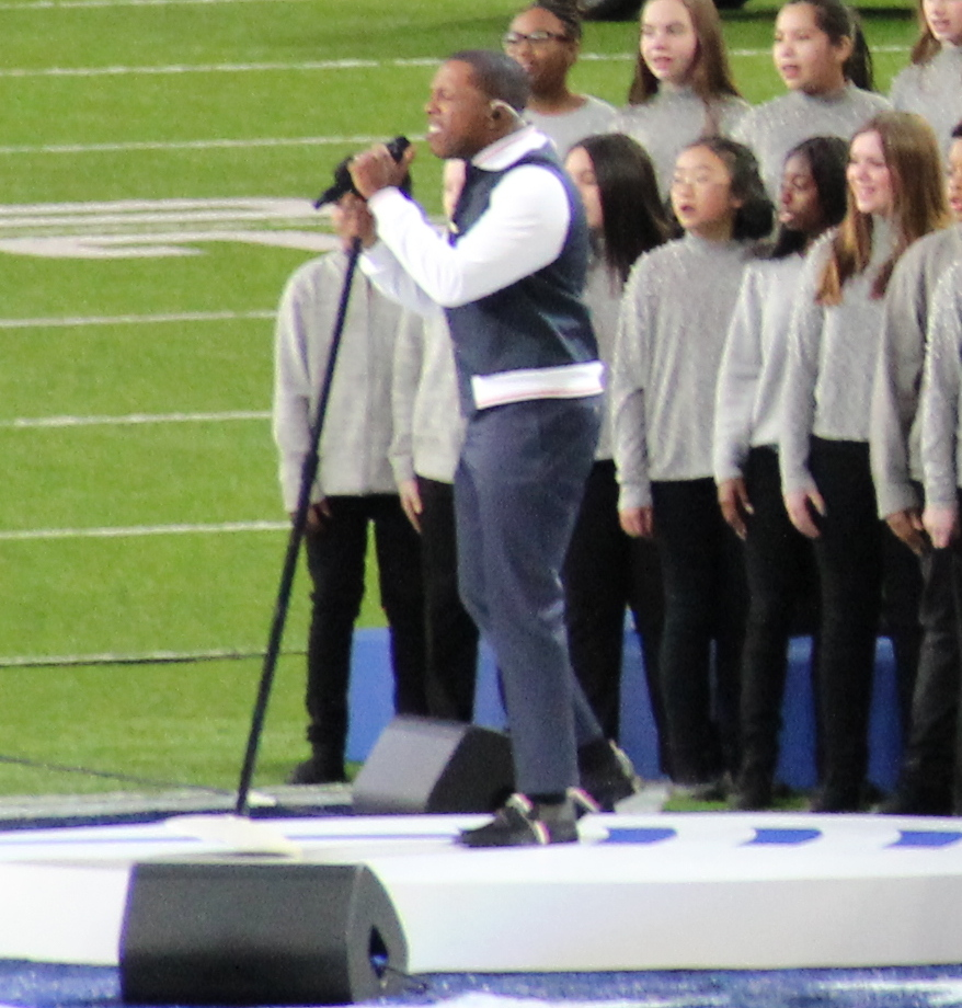 Leslie Odom, Jr. sings America The Beautiful before Super Bowl LII.